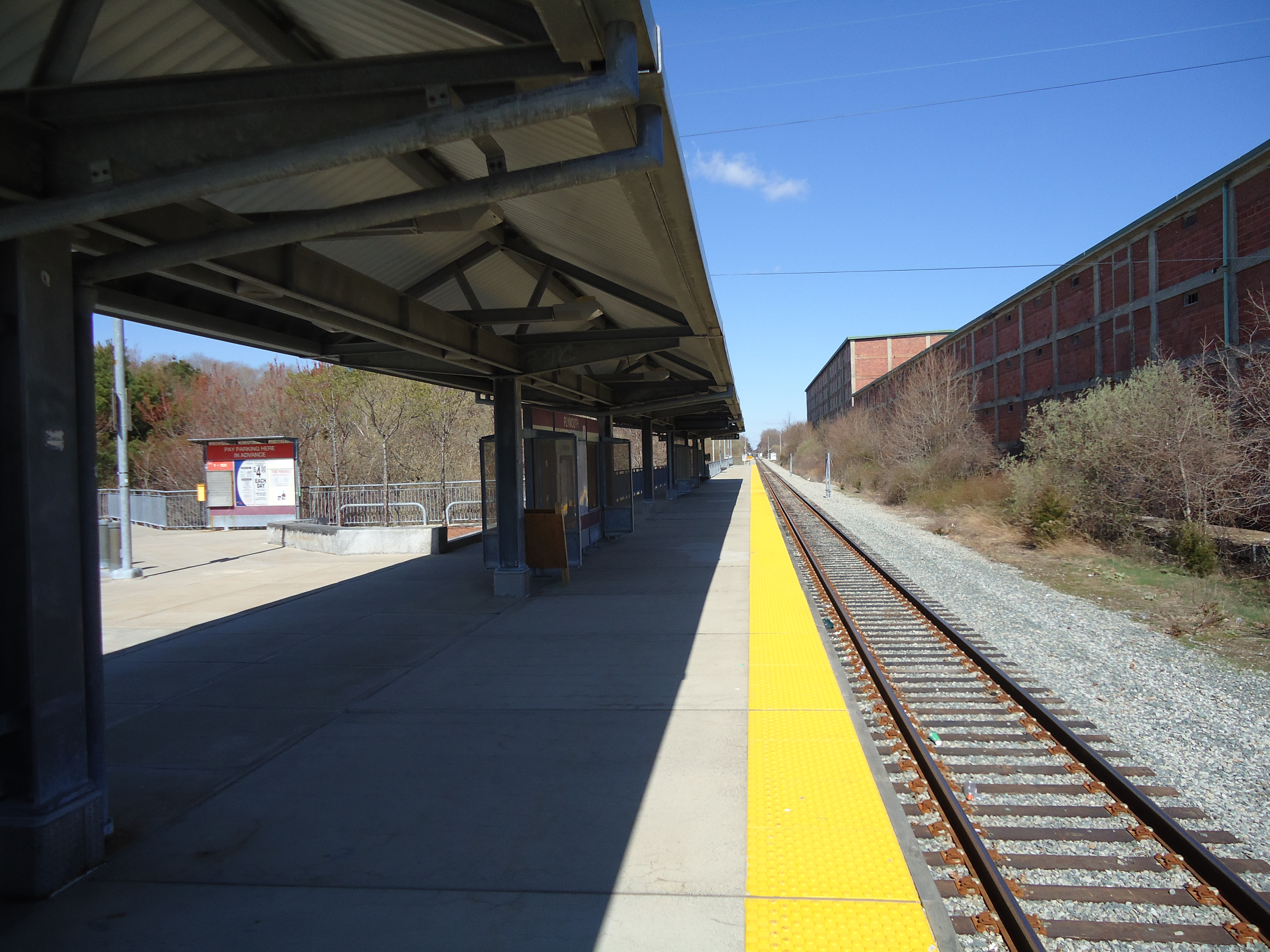 Facing inbound at Plymouth MBTA station